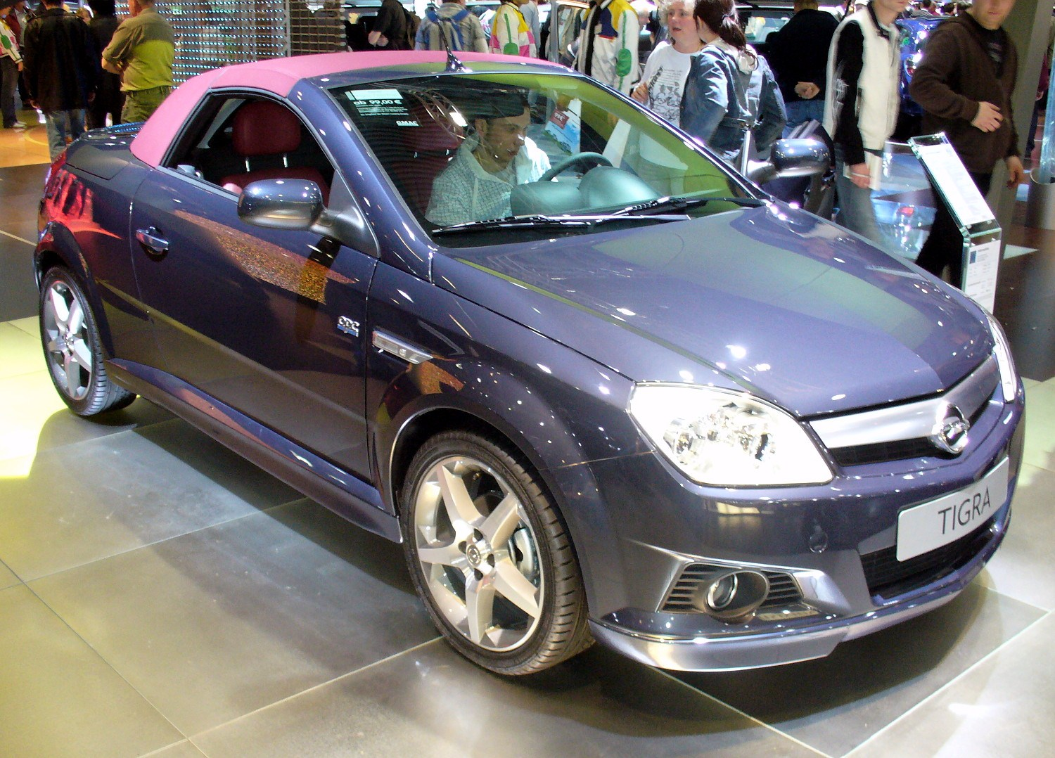 Opel Tigra TwinTop Illusion